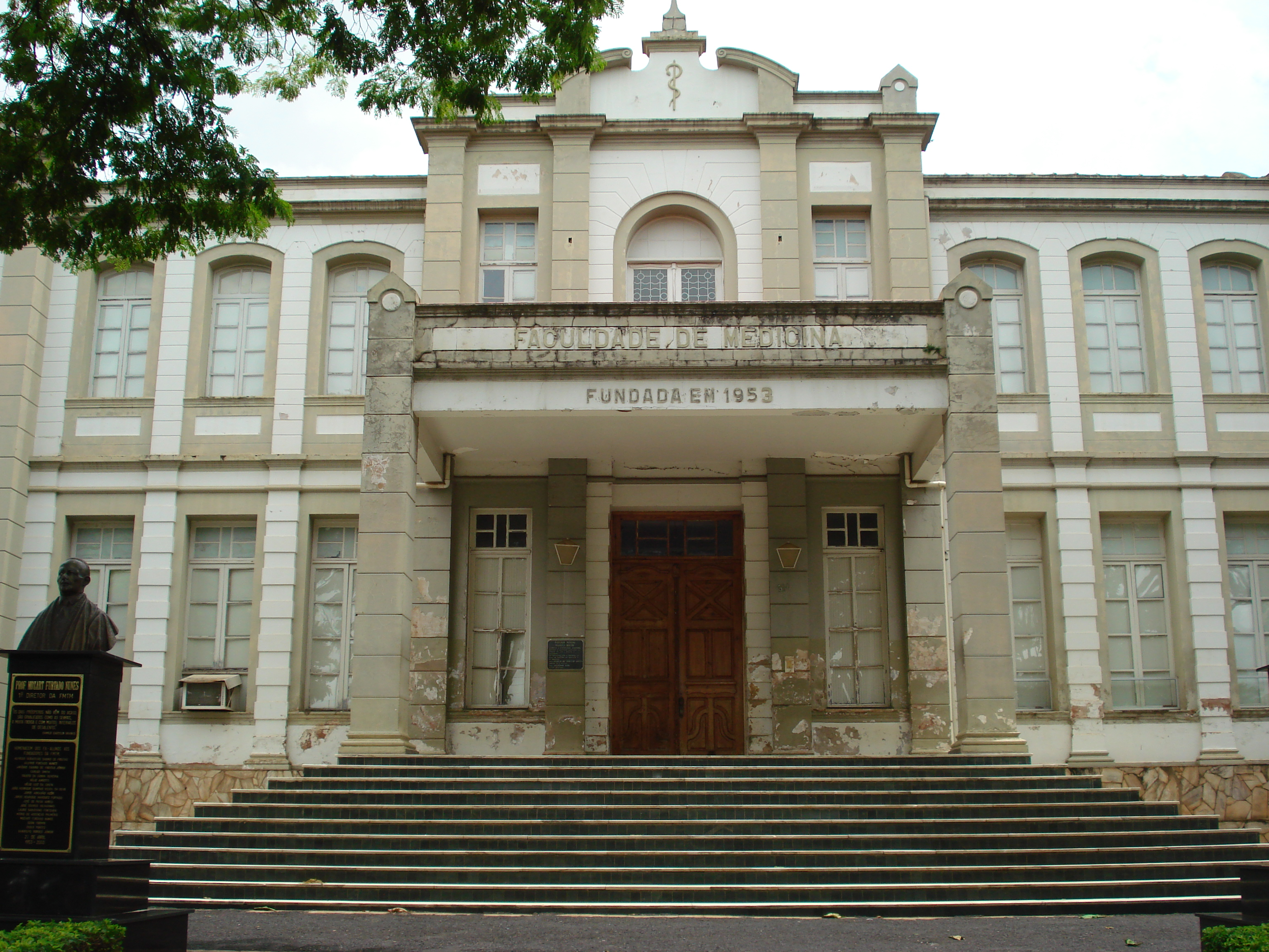 facade of faculty of medecine